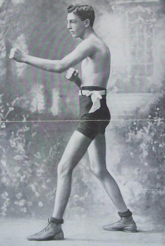 Photograph of Harry Harris, an American boxer